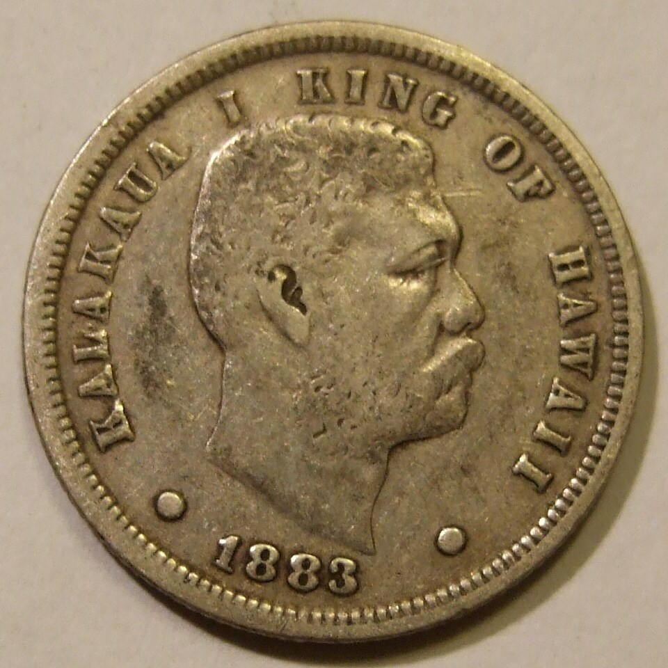 10 cents ("one dime") coin of the Kingdom of Hawaii. Silver. Minted in San Francisco, USA, under the reign of Kalakaua I. Charles E. Barber, engraver. Dated 1883. Obverse showing king Kalakaua.